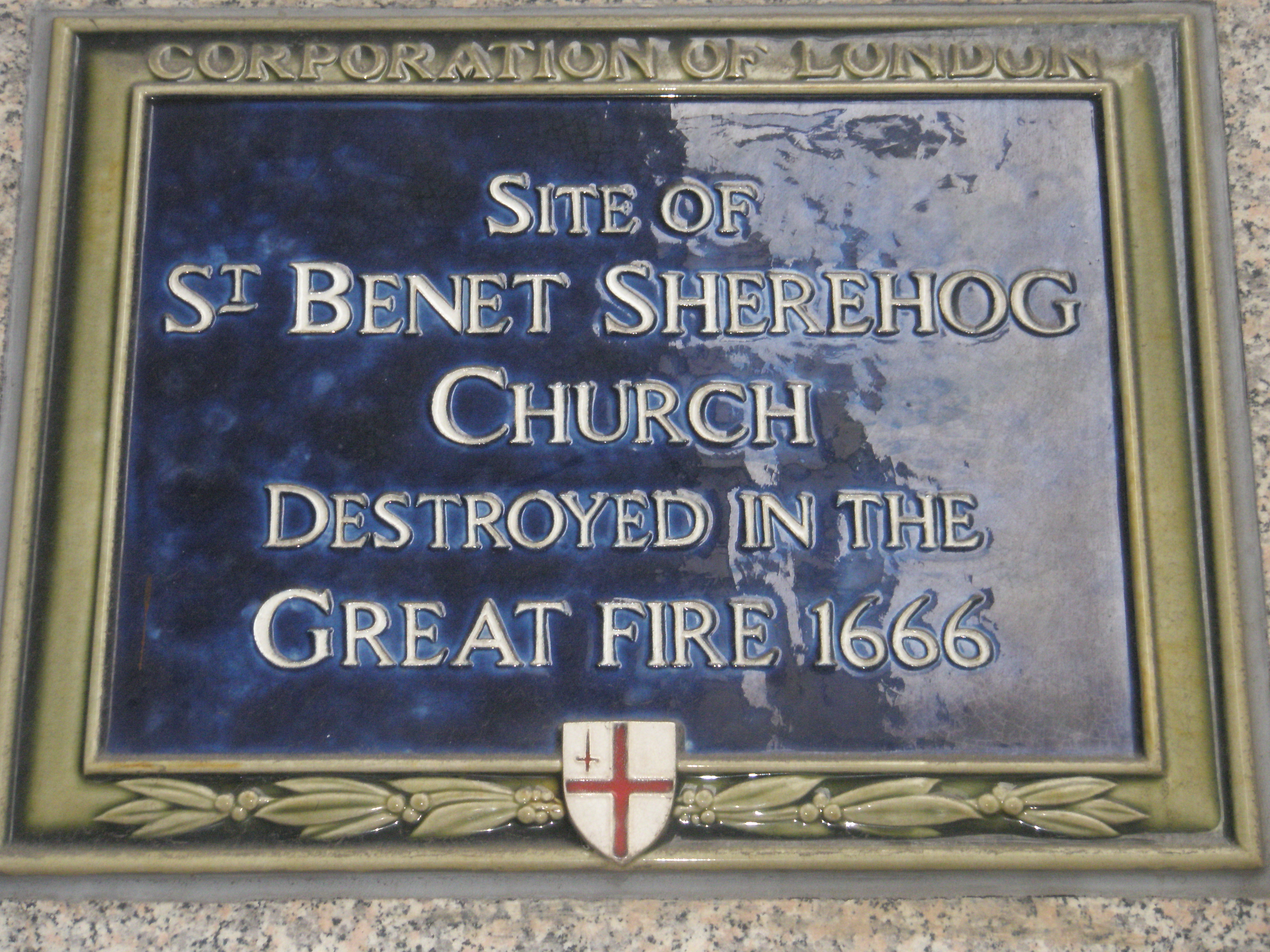 Plaque in Sise Lane, City of London, marking the site of the former church of St Benet Sherehog